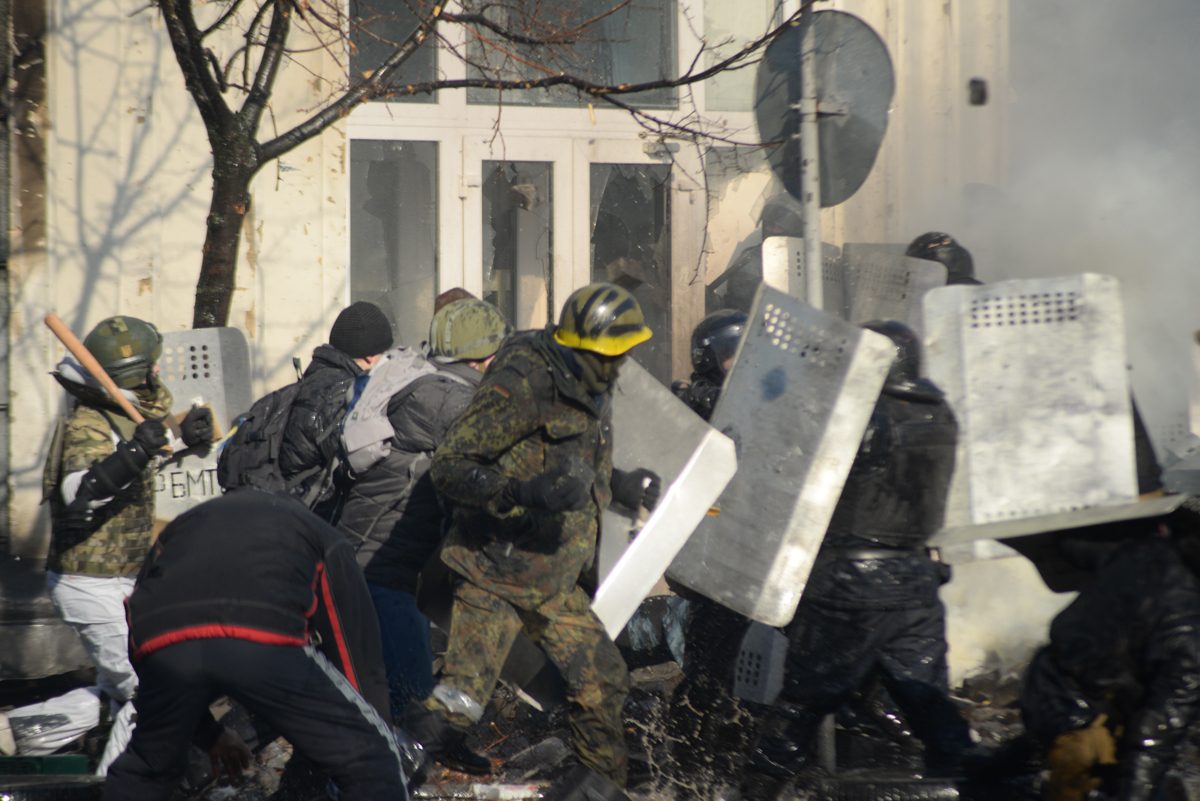 Clashes between radically oriented protesters and internal troops. Ukraine, Kyiv. Events of February 18, 2014